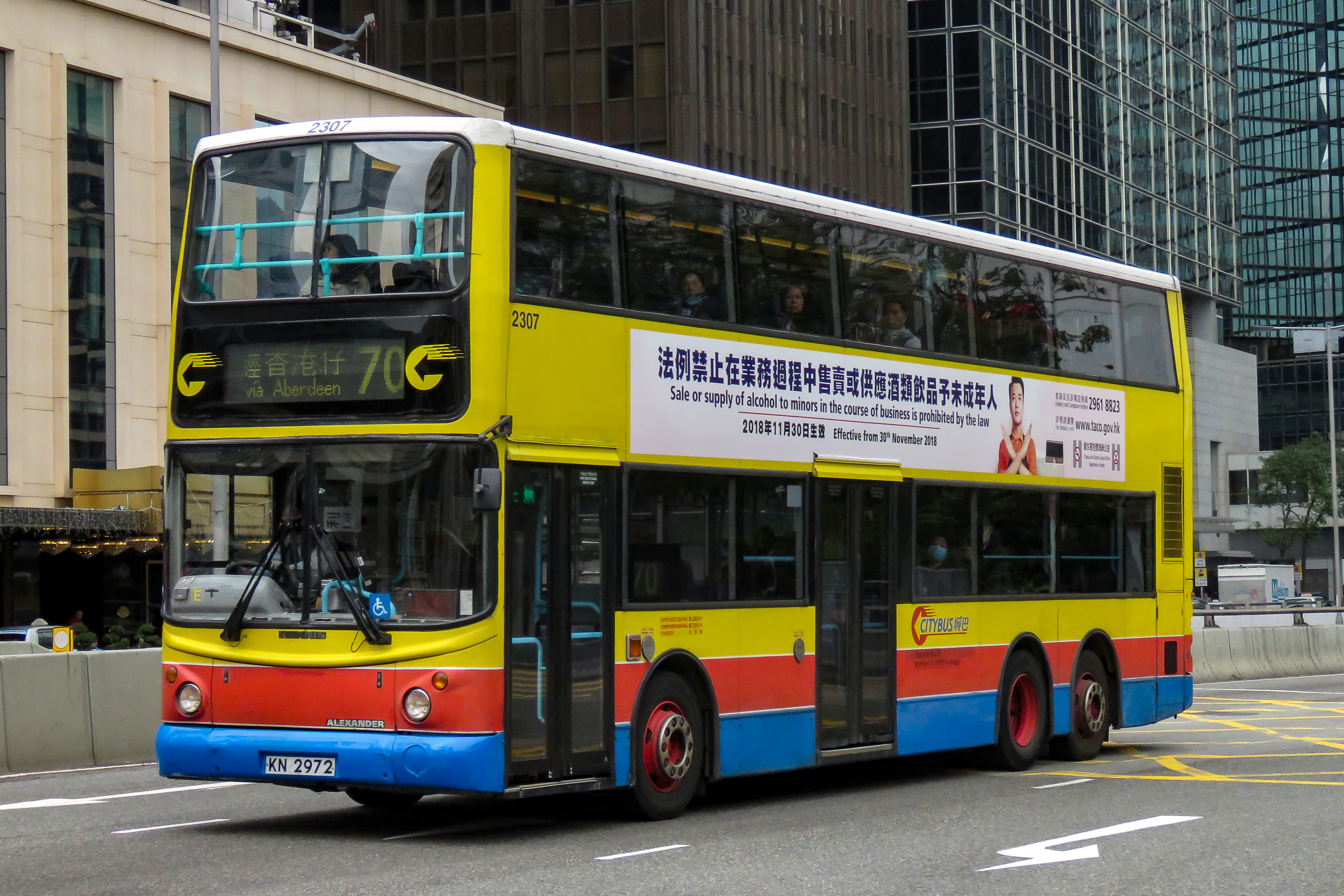 One of the last Tridents...